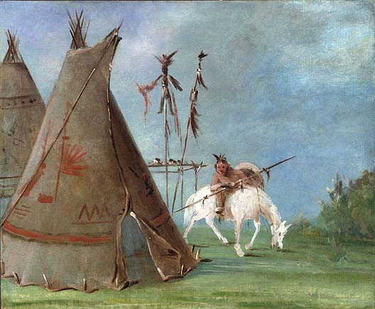 Painting of Comanche tipi and warrior